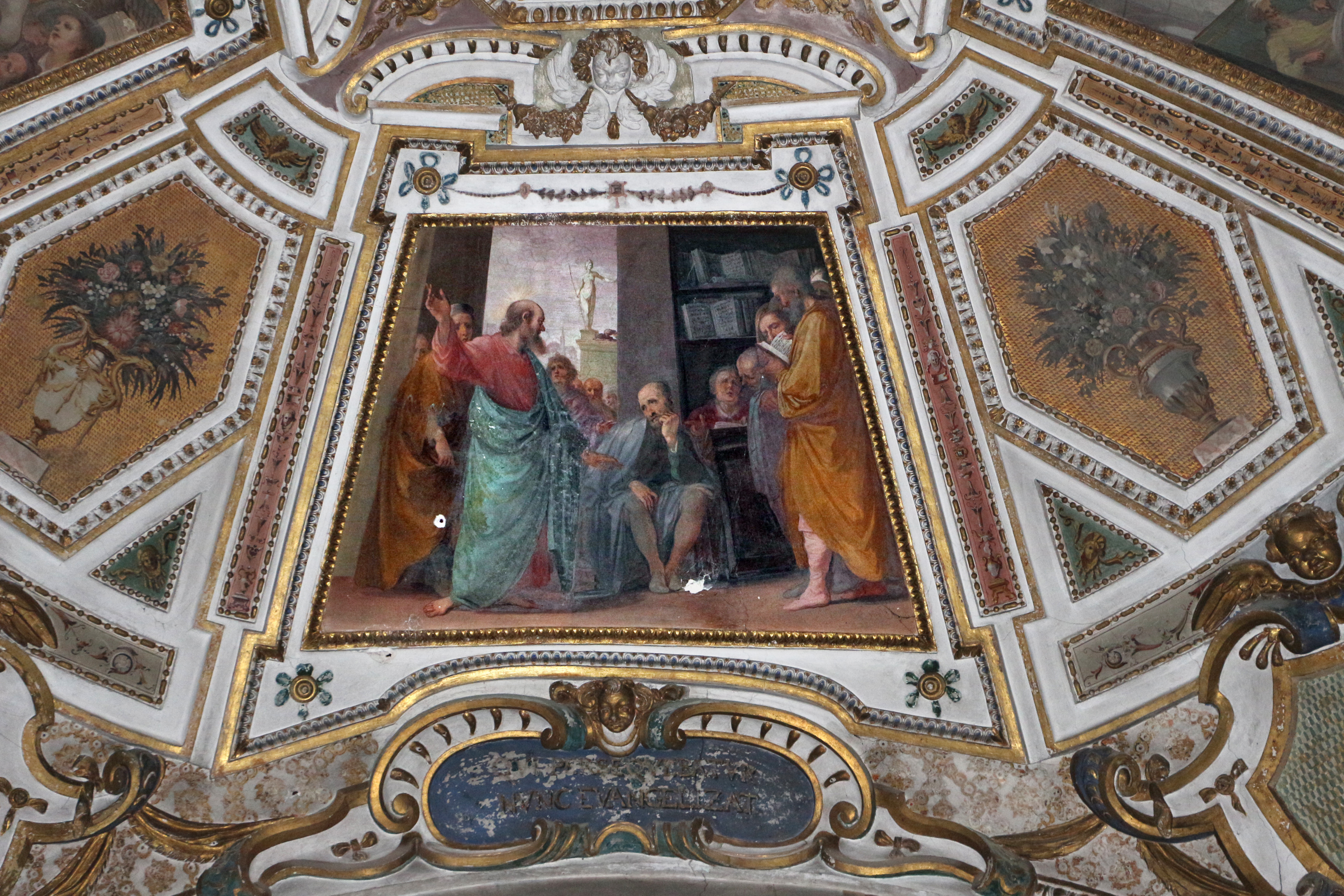 Duomo (Volterra) - San Paolo Chapel